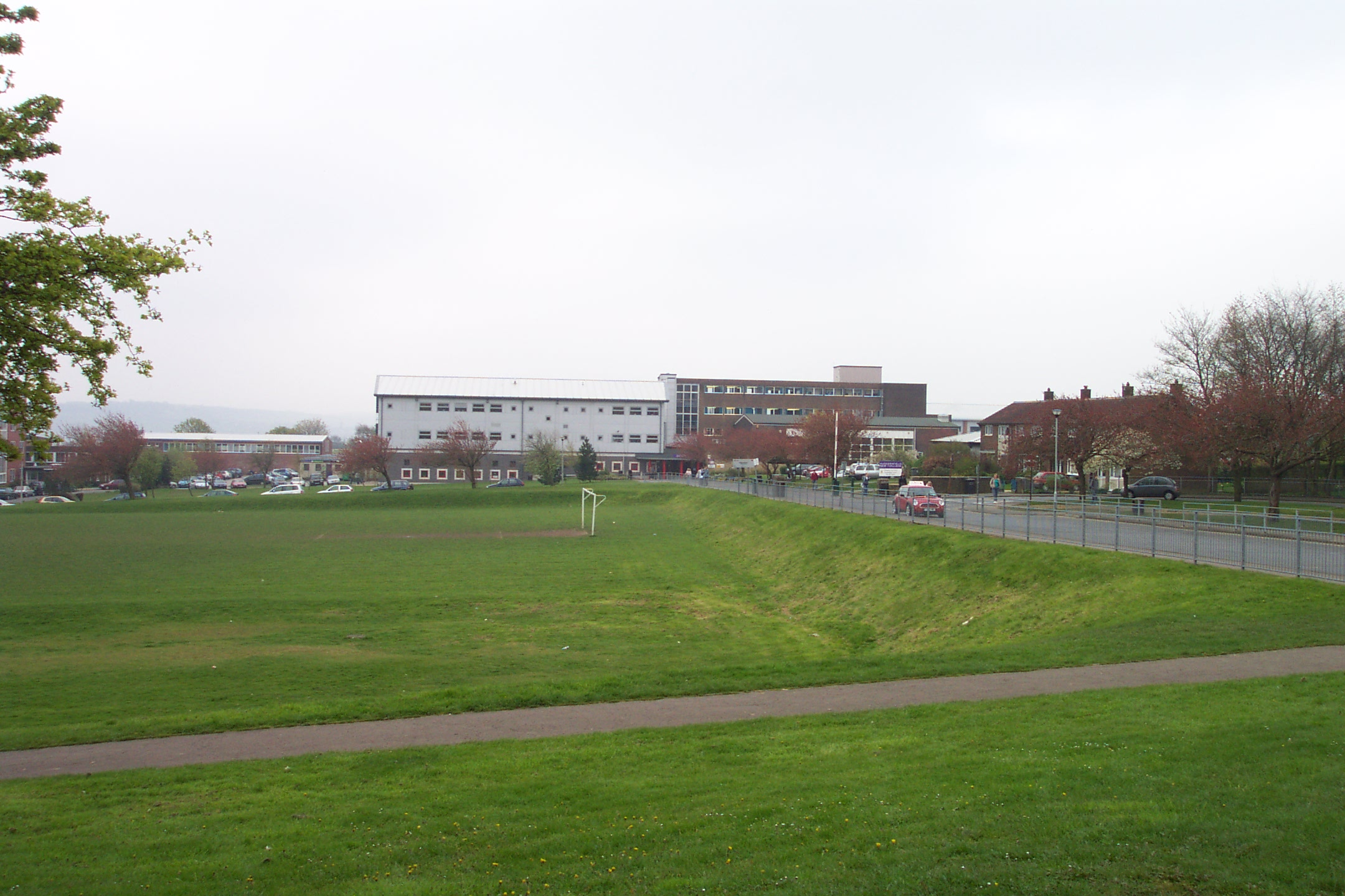 Huddersfield New College seen from New Hey Road in September 2005. For more information, see Wikipedia article Huddersfield New College.